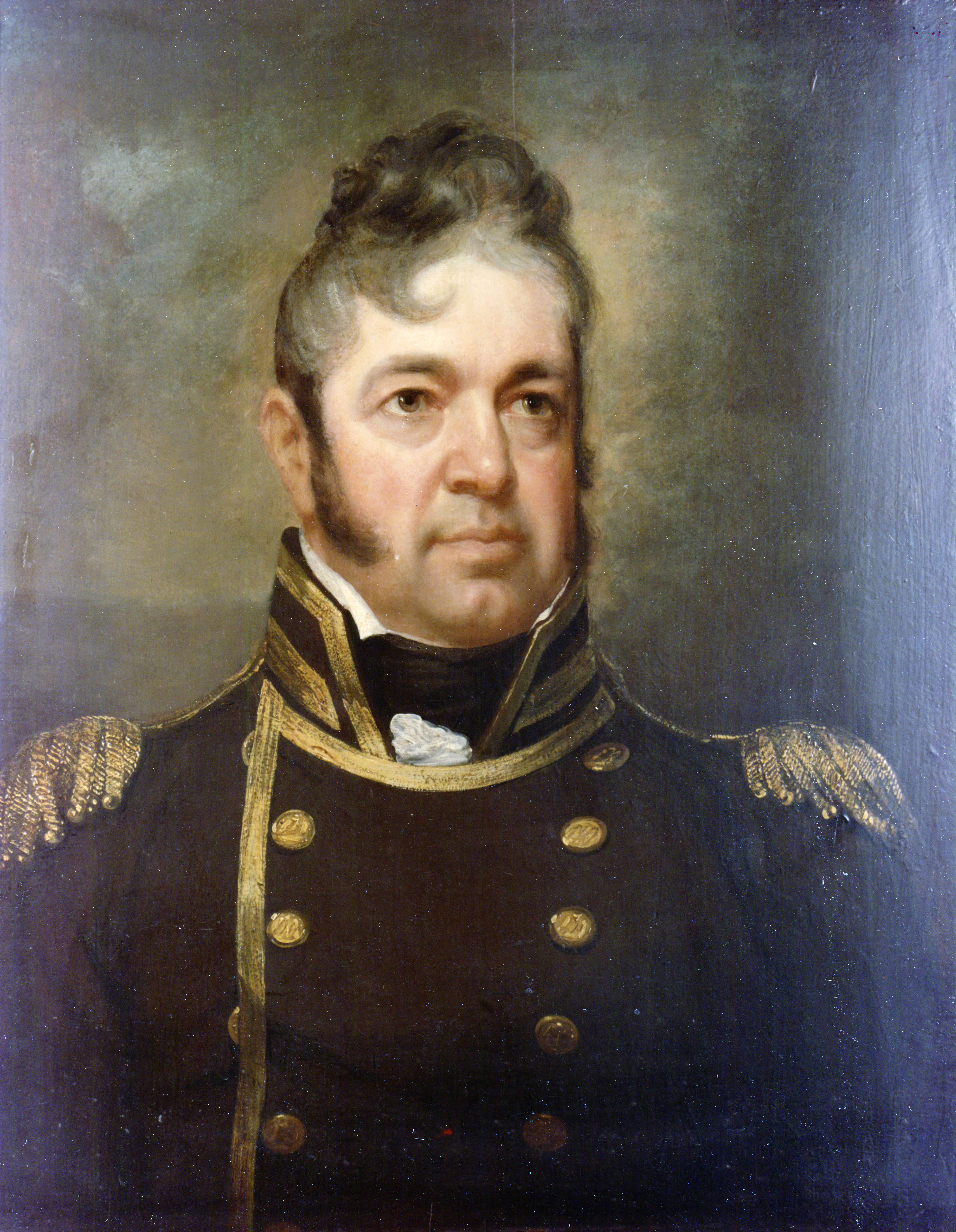 After USS Constitution‘s impressive defeat of HMS Java, Commodore Bainbridge and his victorious crew became national heroes. On March 1, 1813, the Common Council of New York City voted to honor Bainbridge by commissioning his likeness for their Gallery of Portraits. They turned to Gilbert Stuart (1755-1828), the “Father of American Portraiture.” Bainbridge sat for Stuart in his Roxbury studio, but the temperamental artist and his sitter had a disagreement, which no doubt explains the subject’s petulant expression. Stuart refused to finish the portrait. Ultimately, Commodore Bainbridge acquired this portrait and it descended through his family. The face of the oil portrait is characteristically Stuart: ruddy cheeks contrast with the pale forehead of a man who has spent years at sea wearing a hat. The painting reflects the honors bestowed on our early naval heroes by a grateful nation.